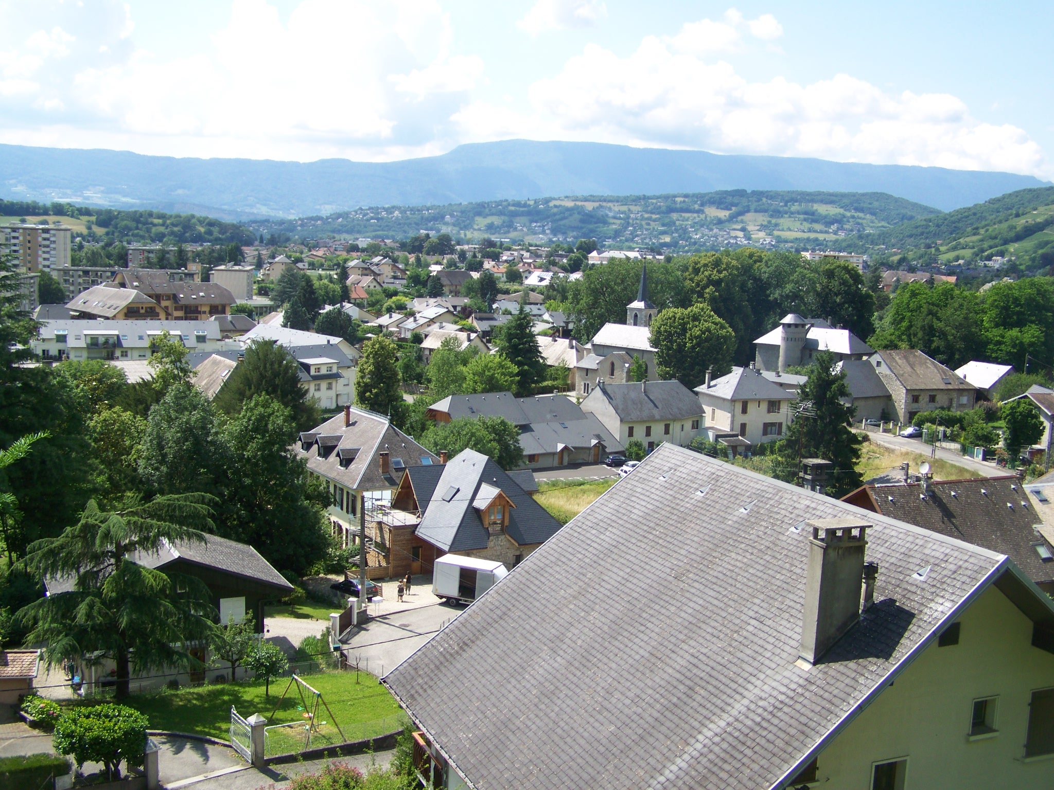 Sight from the heights of the French commune of Barby, near Chambéry in the department of Savoie.